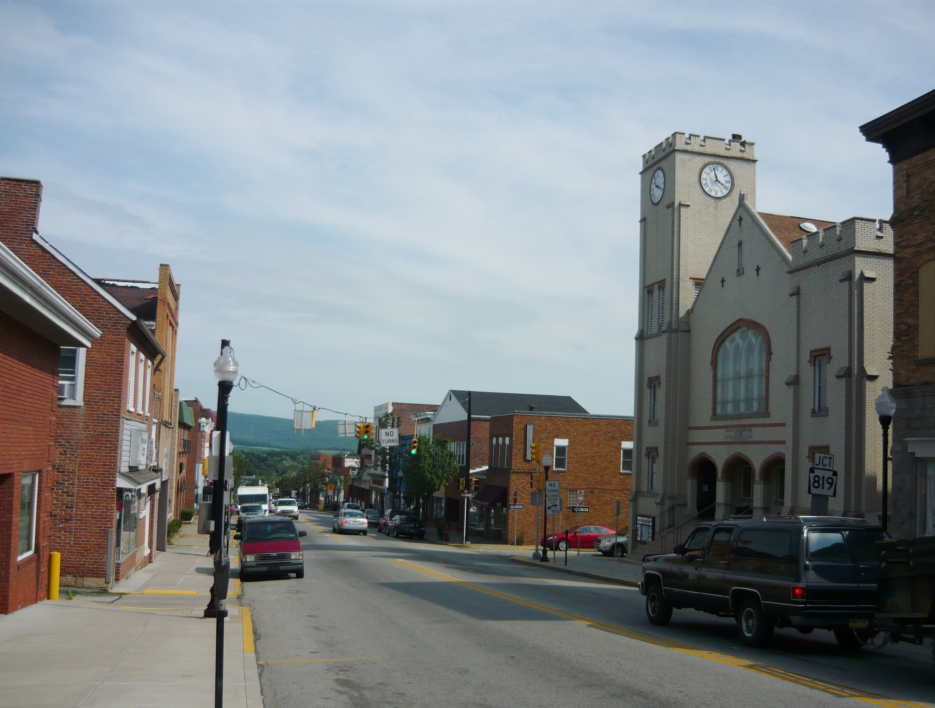 Looking eastward on Main Street, Mount Pleasant, Westmoreland County, Pennsylvania.